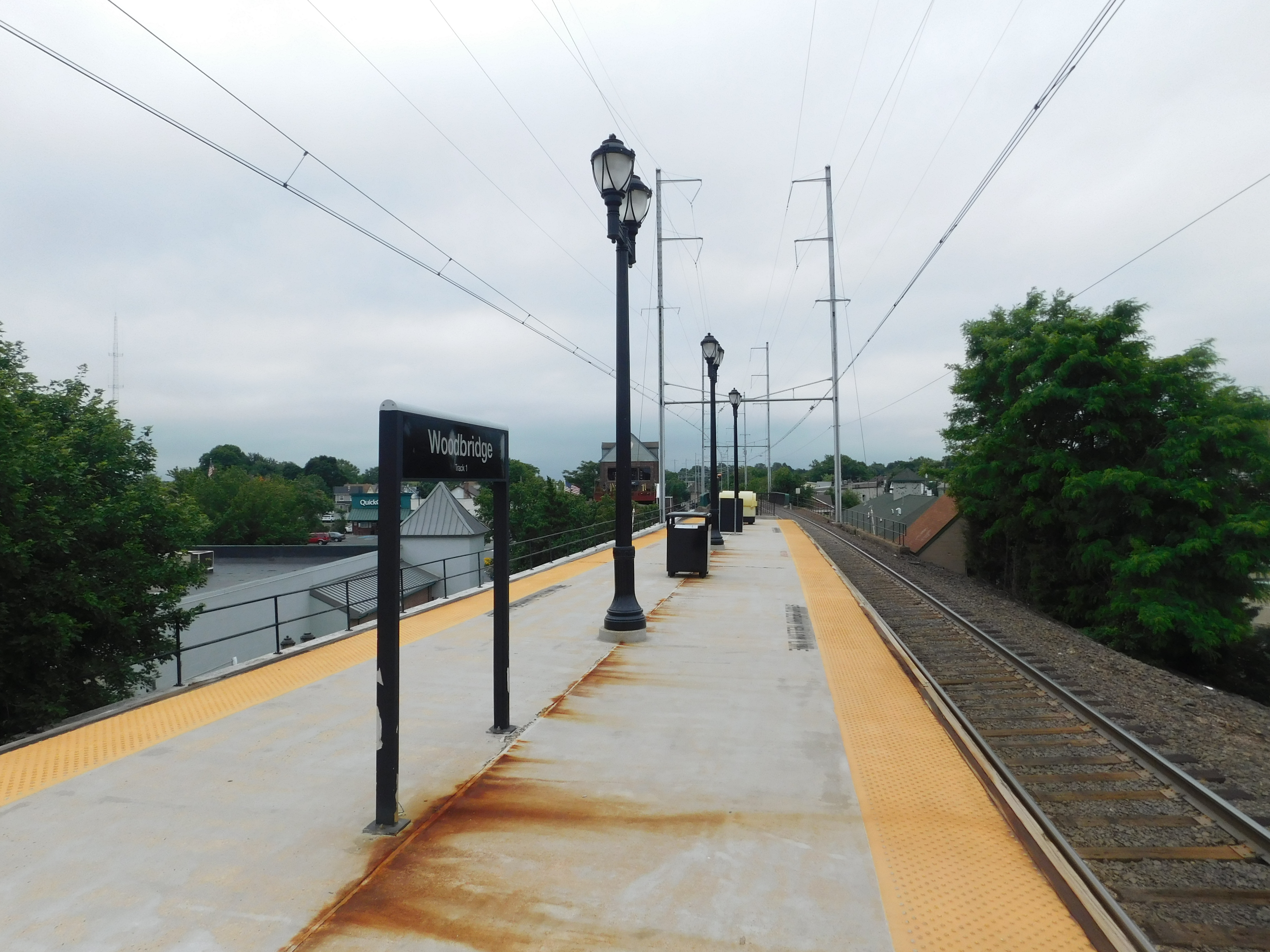 The Woodbridge station of New Jersey Transit in Woodbridge, New Jersey in June 2018.